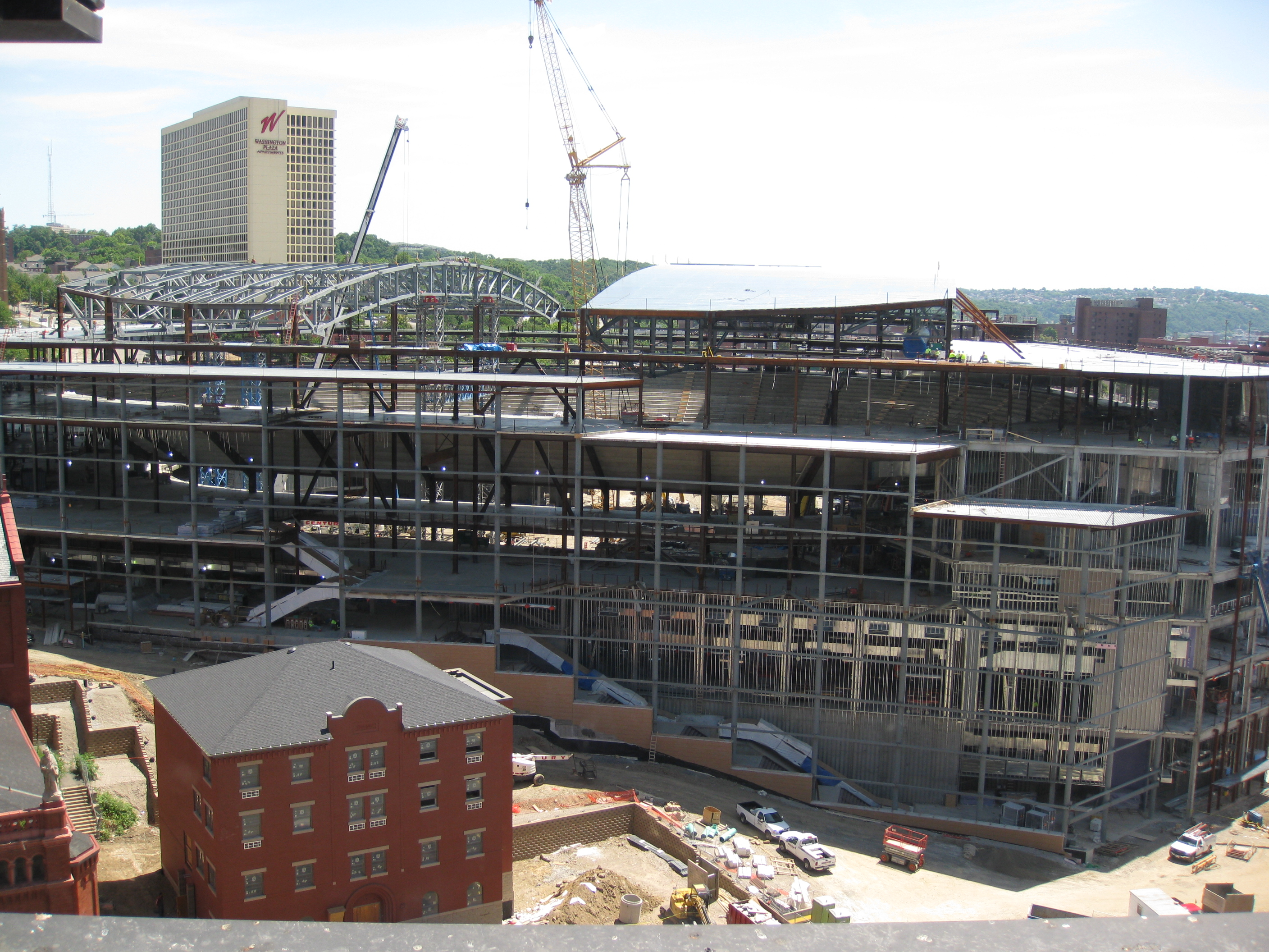 Consol Energy Center, home of Pittsburgh Penguins